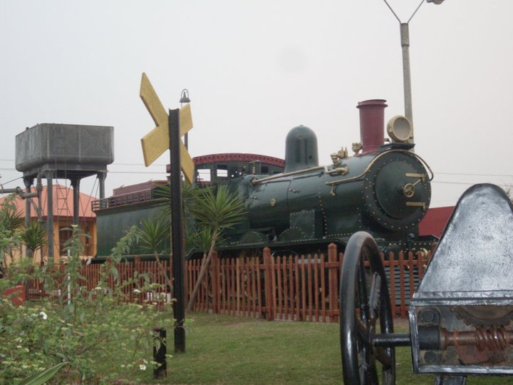 Locomotora artigas